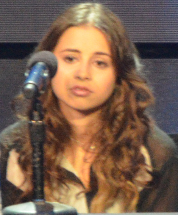 Who's excited for the finale of The X Factor on Wednesday and the results show on Thursday? The Red Carpet Report team was out at CBS Television City studios yesterday for the press conference with judges Simon Cowell, Demi Lovato, L.A. Reid, and Britney Spears, hosts Khloé Kardashian Odom and Mario Lopez, and the remaining three finalists. Be sure to visit our Red Carpet Report site for all the details on this and other events including photos and interviews here at . In a special two-night grand finale event, the Top Three finalists will take the stage for their final performance LIVE Wednesday, Dec. 19 (8:00-10:00 PM ET live/PT tape-delayed) on FOX TV. Be sure to vote after their performance & get the FREE XFactor app for your smart phone here . Tune in on Thursday Dec. 20 (8:00-10:00 PM ET live/PT tape-delayed) for the special two-hour LIVE results show with hosts Khloé Kardashian Odom and Mario Lopez announcing which act will be crowned the winner of THE X FACTOR. The winner will receive a $5 million recording contract with Syco/Sony Music. Watch the star-studded two-night event featuring special performances from world-renowned rapper Pitbull, and One Direction – the global sensation that rose to fame on the U.K. version of “The X Factor”. For more information regarding THE X FACTOR, please visit or follow them on Facebook: For more of Mingle Media TV’s Red Carpet Report coverage please visit our website and follow us on Twitter and Facebook here